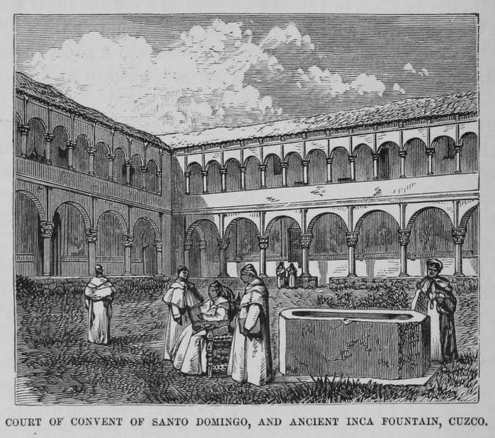 Drawing made by Ephraim George Squier published in his book Peru; Incidents of Travel and Exploration in the Land of the Incas (1877).